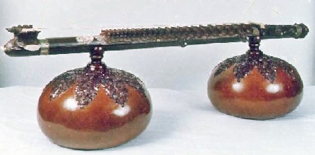 A prominent musical instrument used in Indian classical music.